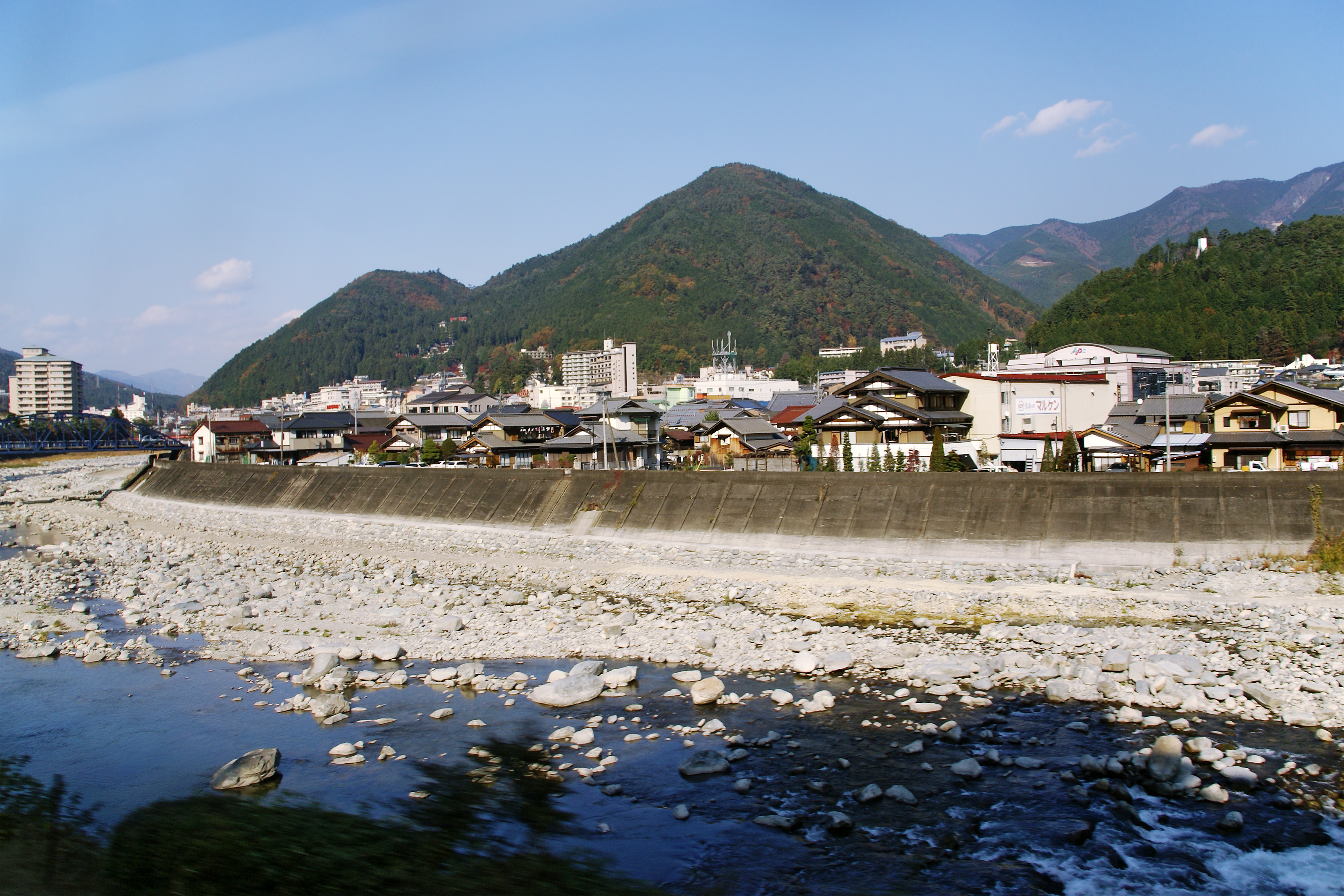 Gero Onsen in Gero, Gifu prefecture, Japan.